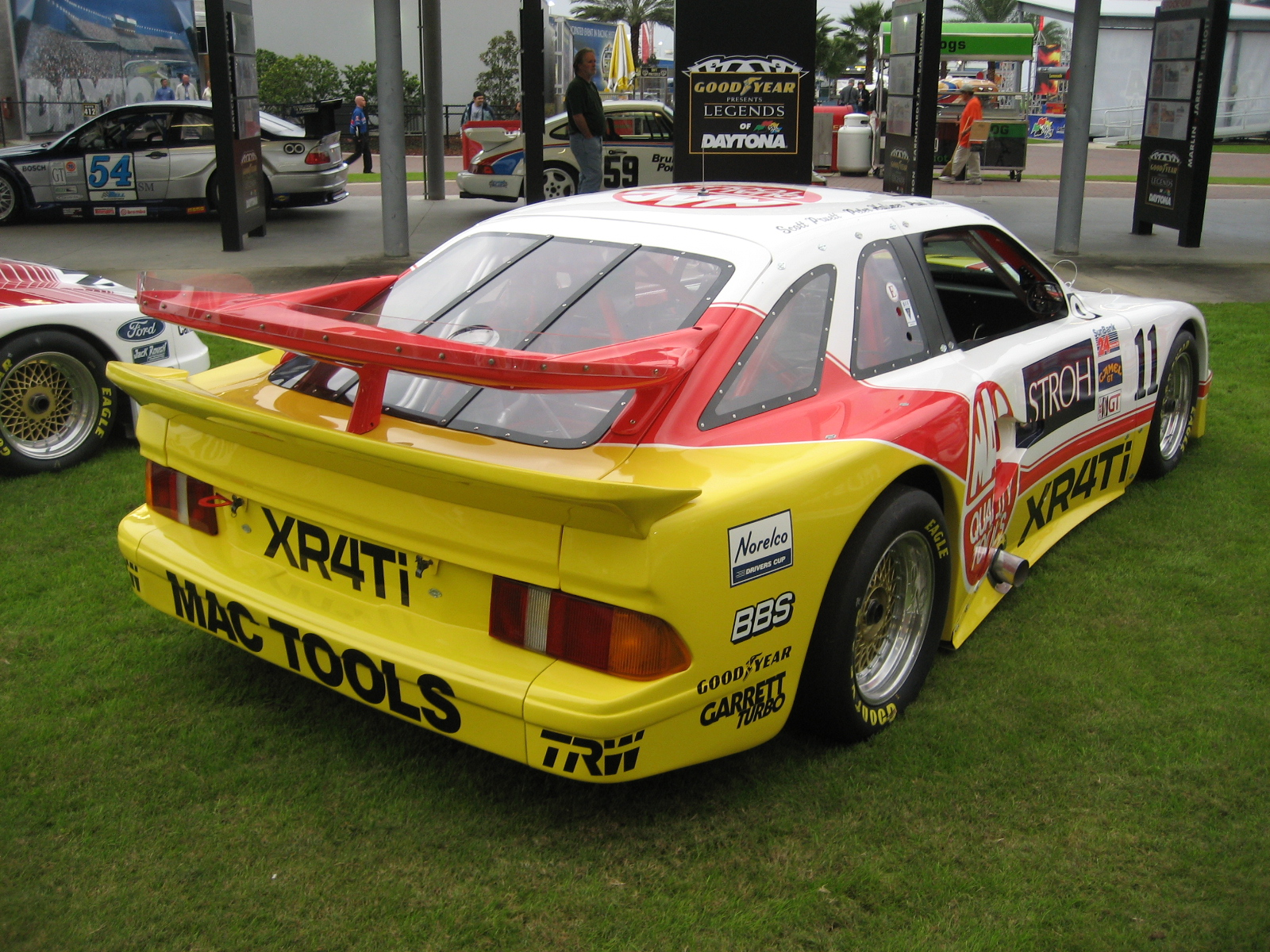 A Merkur XR4Ti which participated in the Trans-Am series and IMSA GT Championship